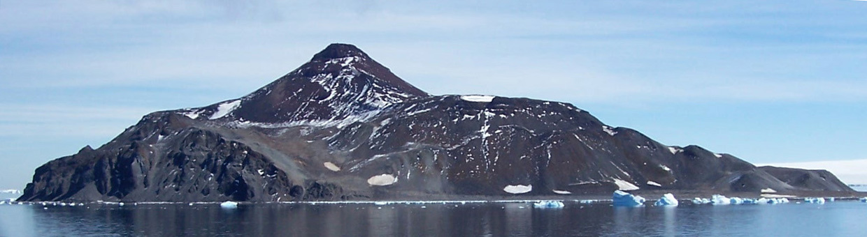 Photo of Paulet Island, Antarctica